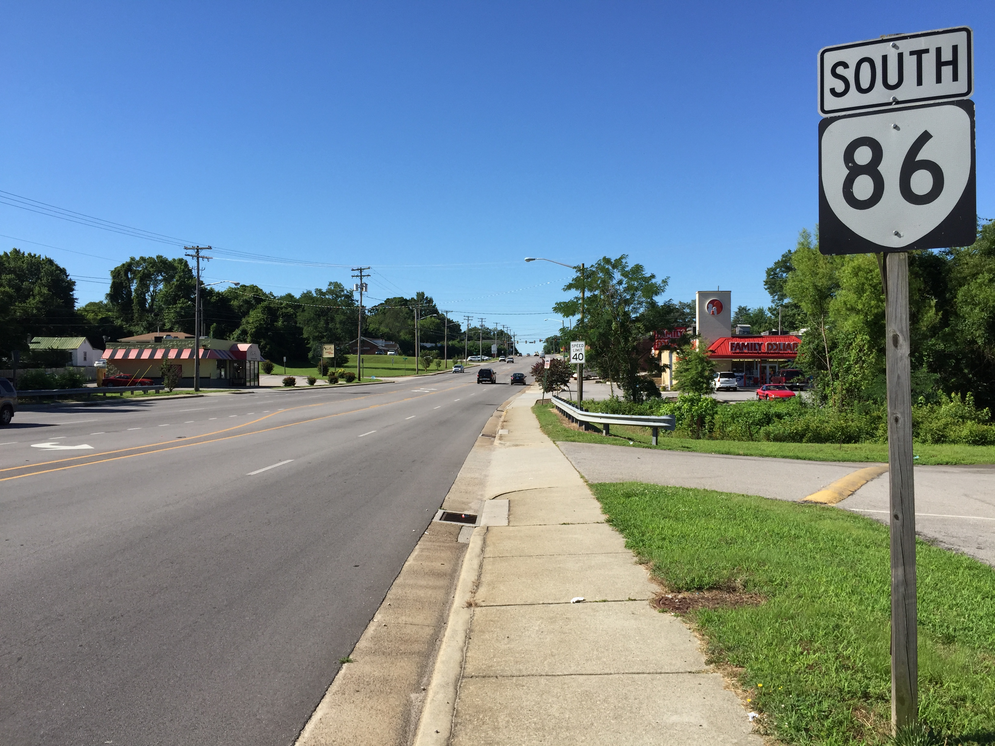 View south along Virginia State Route 86 (Main Street) at Levelton Street and Industrial Avenue in Danville, Virginia